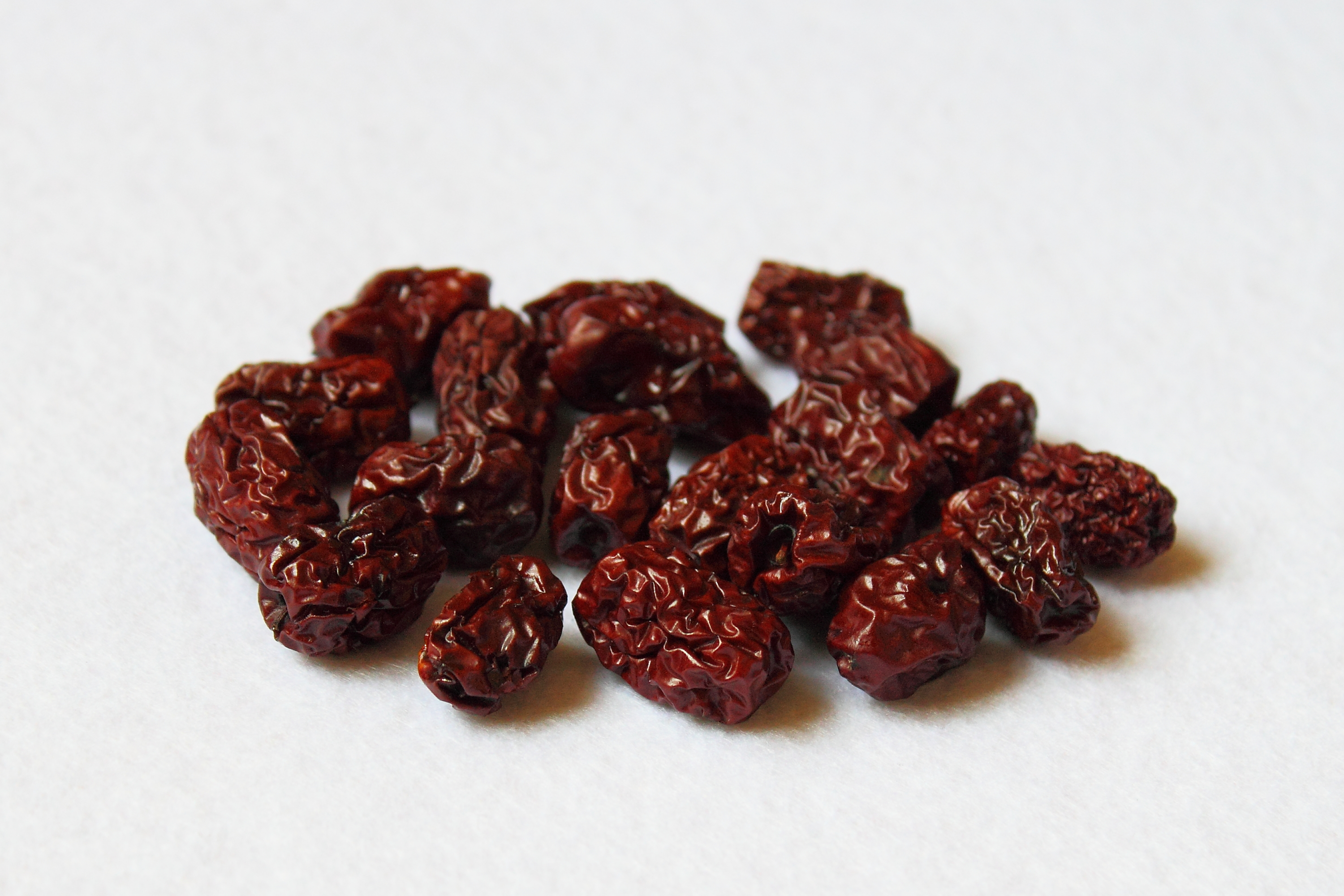 Dates（Jujube, or Ziziphus zizyphus） from Zhanhua County, Shandong Province, China.